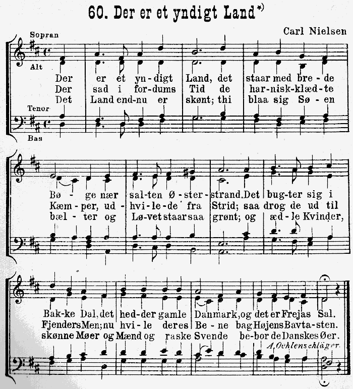 Der er et yndig land - Danish national anthem